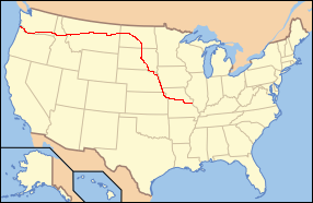 I created this image to be used as a locator map for the Lewis and Clark National Historic Trail.